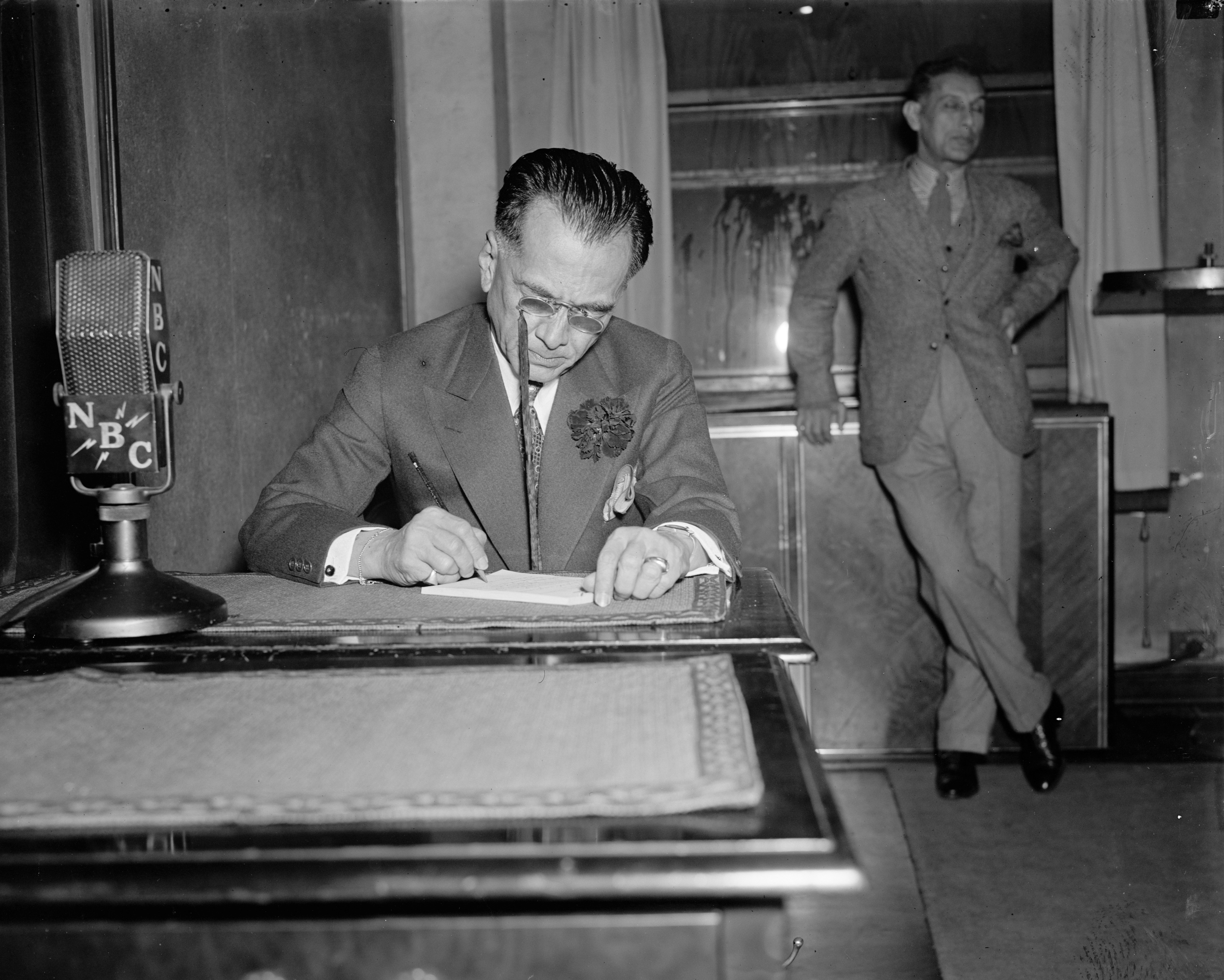 Philippine President broadcasts to home folks. Washington, D.C., April 5. President Manuel Quezon of Philippine Commonwealth broadcast from Washington today to his fellow-countrymen in Manila. For the 25 minutes he was on the air, President Quezon discussed woman suffrage and urged the 10-year independence program be limited to a shorter period, 4/5/1937